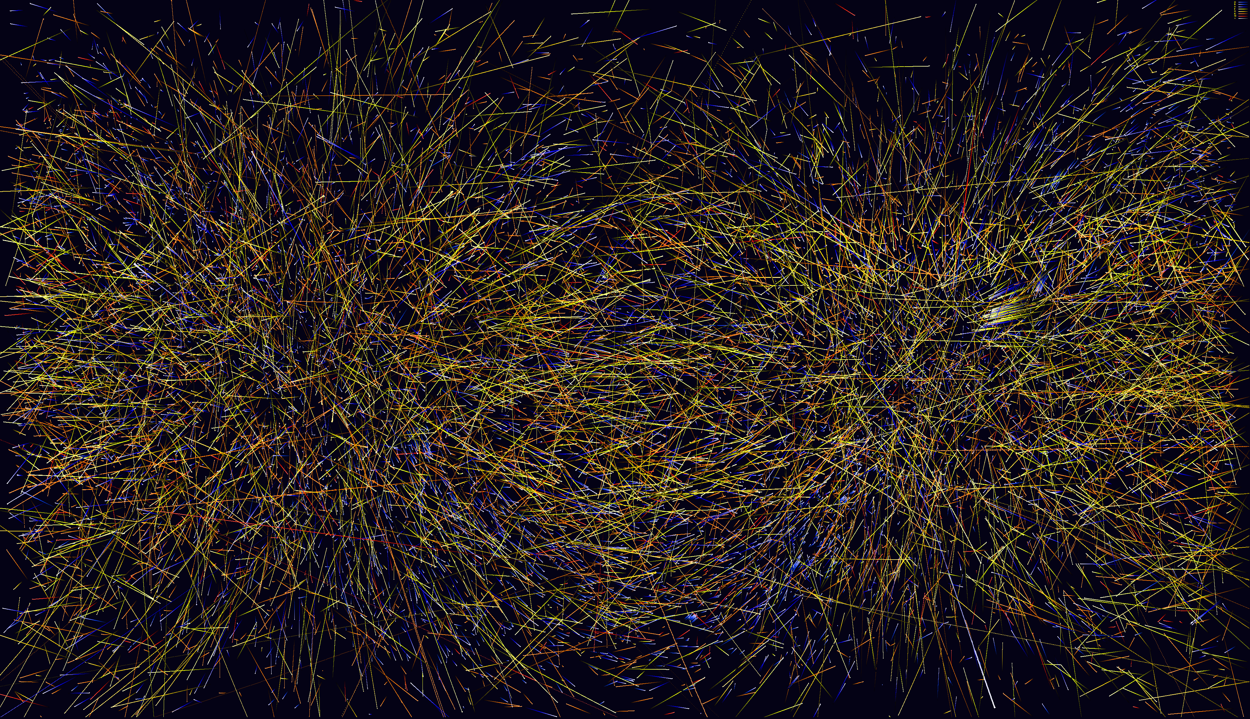 The movement of stars around the apex (left) and antapex (right) in -/+ 200 000 years.